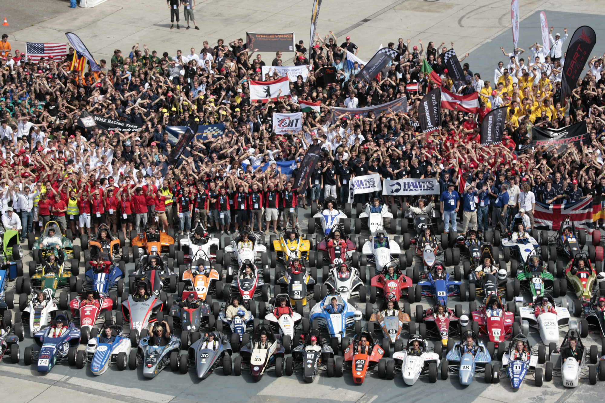 Panoramic pictures at FSG 2008